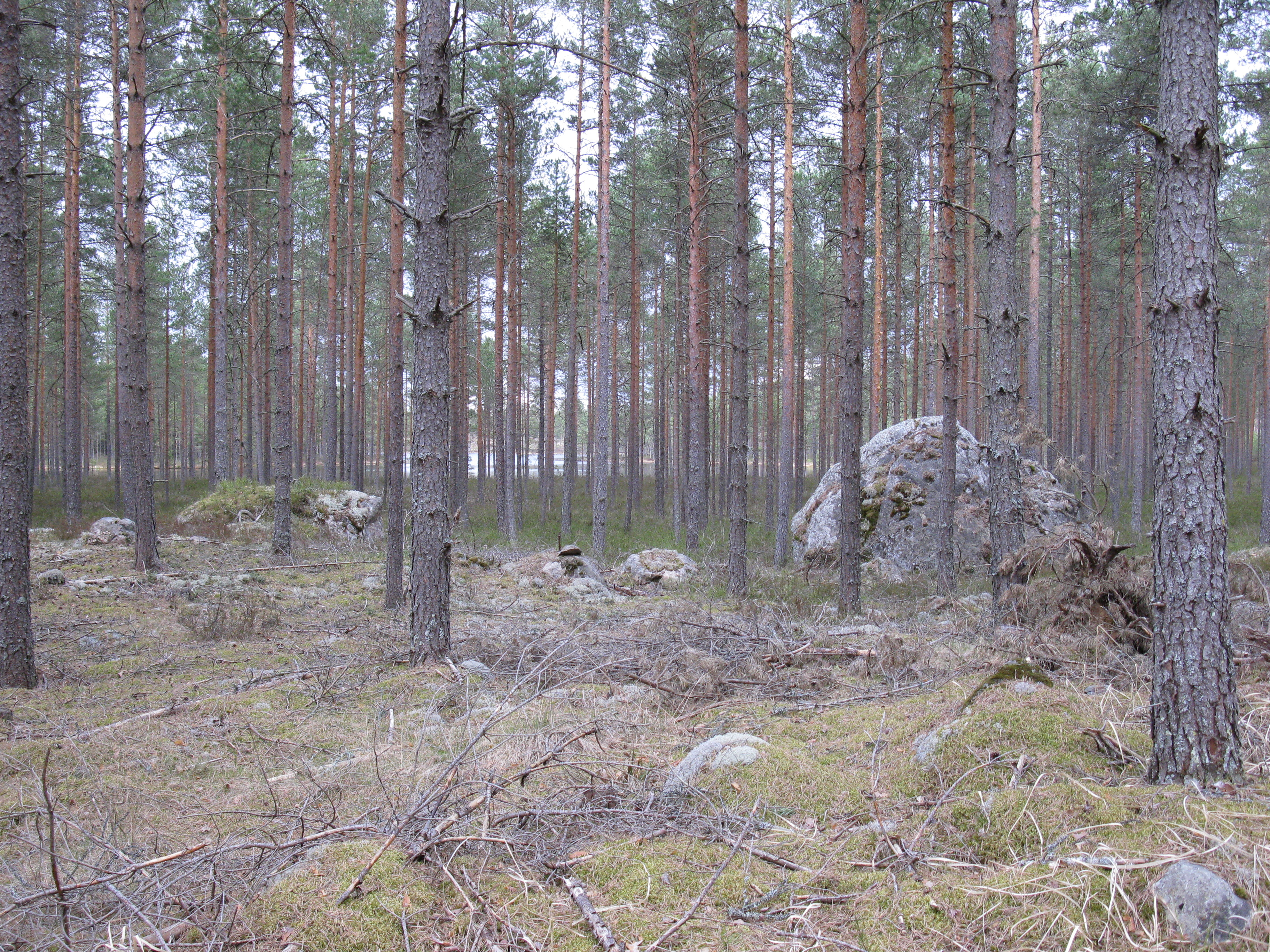 Stony end moraine in Kiikalannummi, III Salpausselkä, Finland.